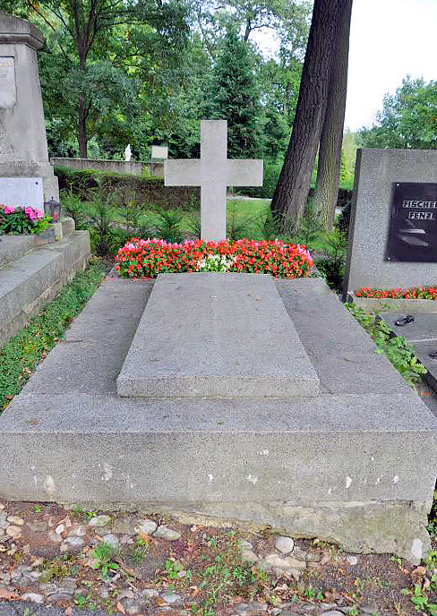 Archduchess Elisabeth Marie of Austria, the "Red Archduchess", nickname Erzsi. Her nameless grave in Hütteldorfer cemetery, Vienna 14th district